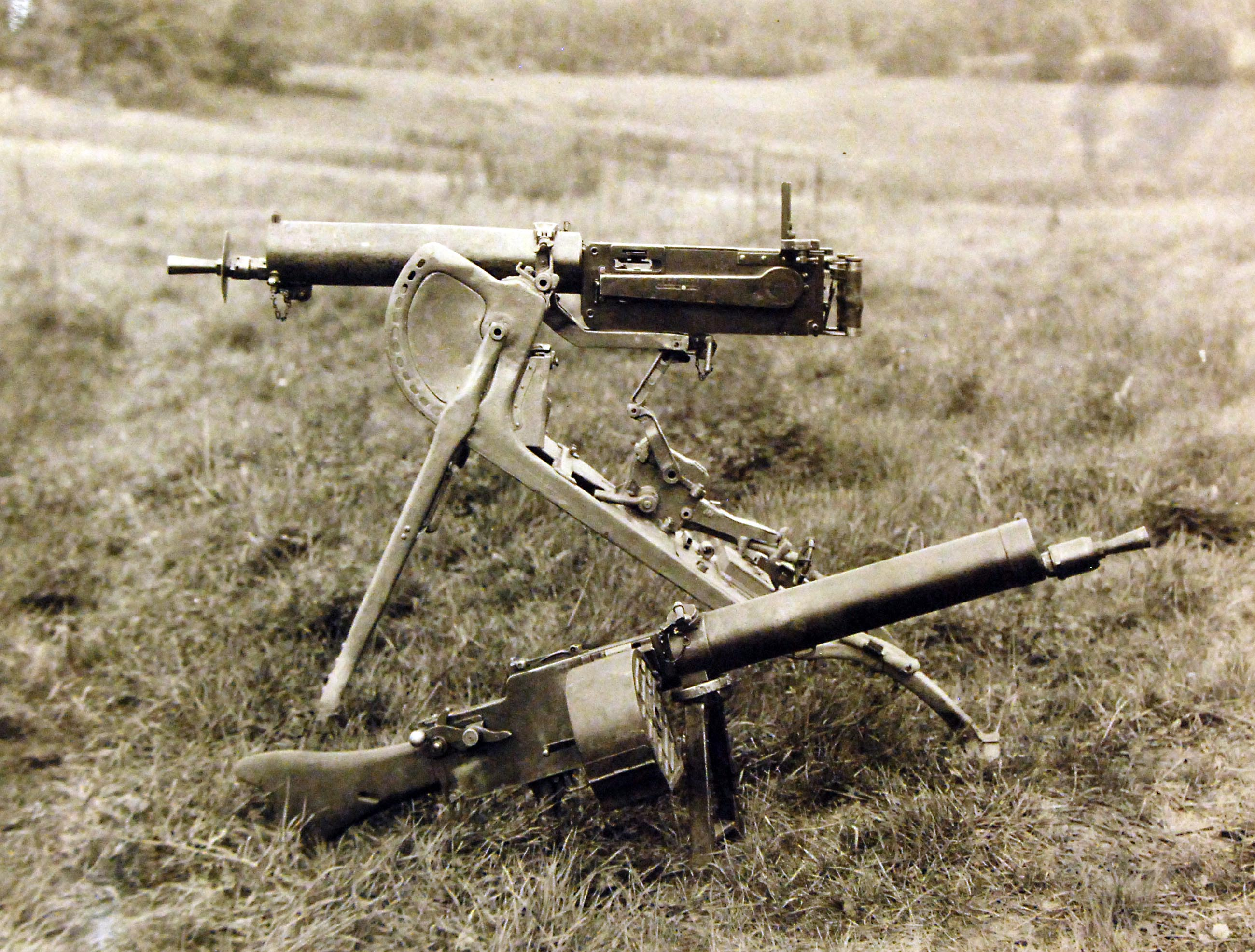 Lot-8293-5: Two German Machine Guns at Main Advance Salvage Dump of the 77th Division. These guns, which have been put in order by the French, will be used to fire back captured ammunition against the Boche. The large gun is a heavy Maxim marked, “Deutsche Waffen Und Munitons fabriked, Berlin 1917. The small gun is a light Maxim marked, “9238 MG 08/15 Gwf Spandau, 1917.” 77the Division near Chery-Chartrevue, September 12, 1918. Courtesy of the Library of Congress. (2016/07/29).